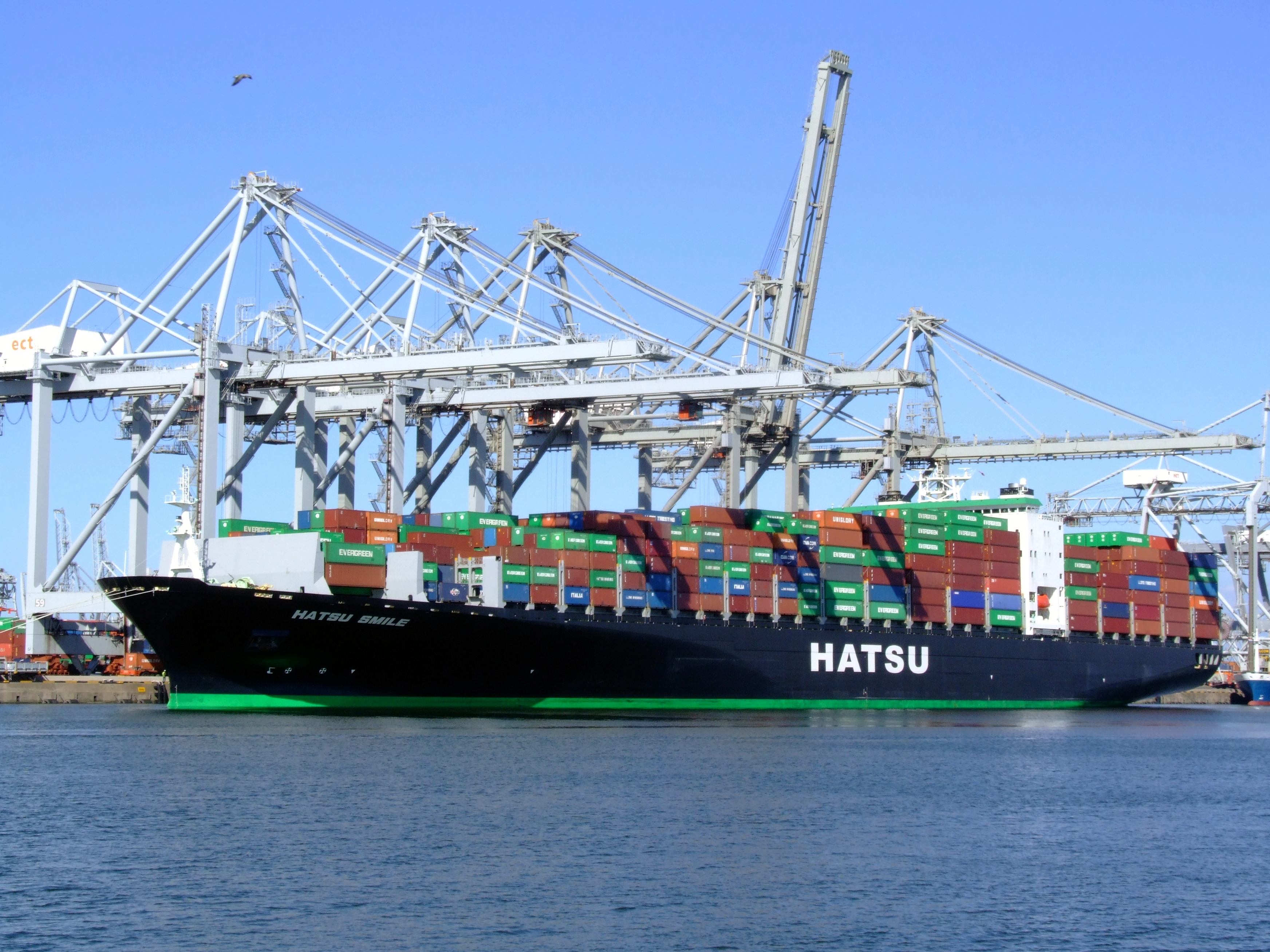 Smile, at the Amazone harbour, Port of Rotterdam, Holland 29-Aug-2007.